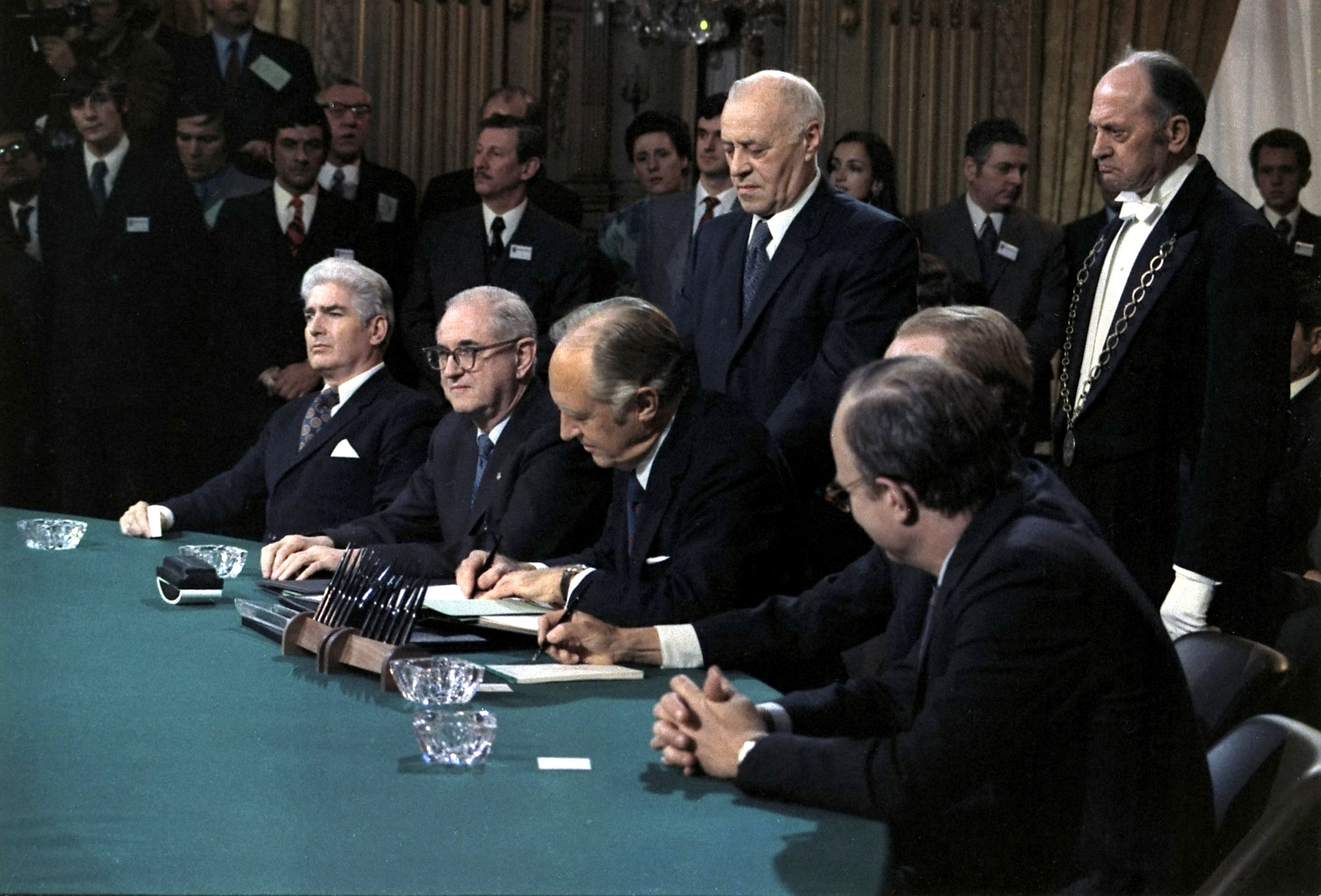 Paris peace talks Vietnam peace agreement signing